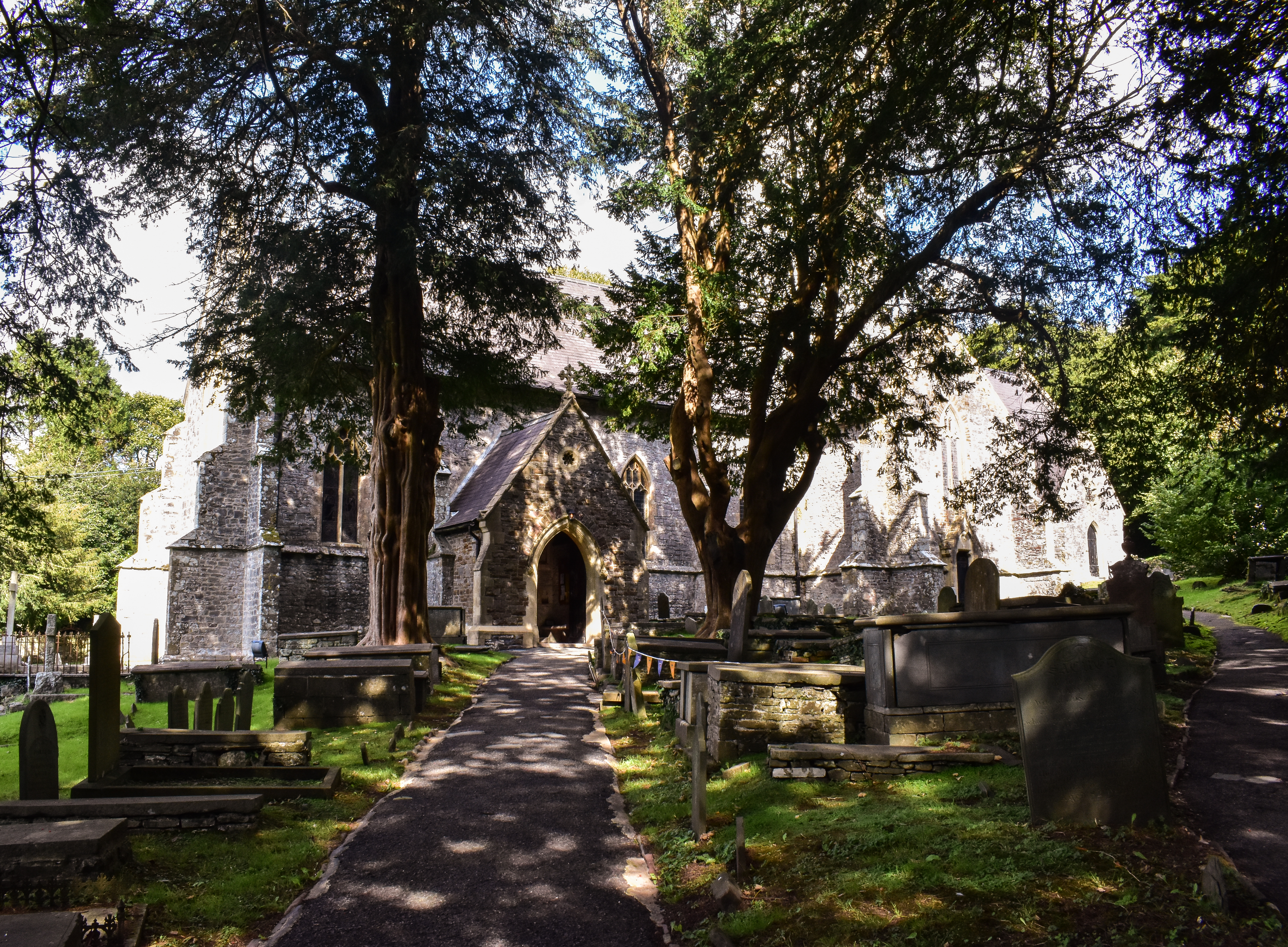 Parish Church Of St. Martin, Laugharne Wikidata has entry Q17742138 with data related to this item.